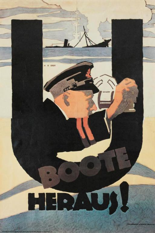 German U-Boat WWI propaganda poster by Hans Rudi Erdt